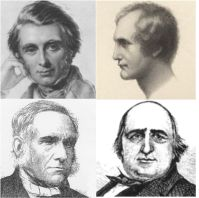 Composite image of John Ruskin, lithograph portrait, dated 1859. Scanned from Oxford Art Journal Vol. 2, Art and Society (April., 1979), p. 35 Thomas Southwood Smith, engraving by James Charles Armytage engraving, published 1844. Scanned from The British Medical Journal Vol. 1, No. 4488 (11 January 1947), p. 63 Obituary portrait of the Rev. Frederick Denison Maurice, from The Illustrated London News, 1872, reproduced in and scanned from Victorian Studies, Vol. 3, No. 3 (March 1960), p. 227 Henry Mayhew, 1861: File:Henrymayhew.png